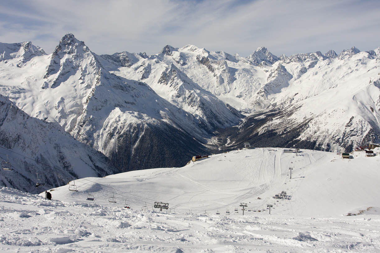 Dombai skiing route "Six" and upper parts of "Six seats", "Five" and "Yugoslavka".